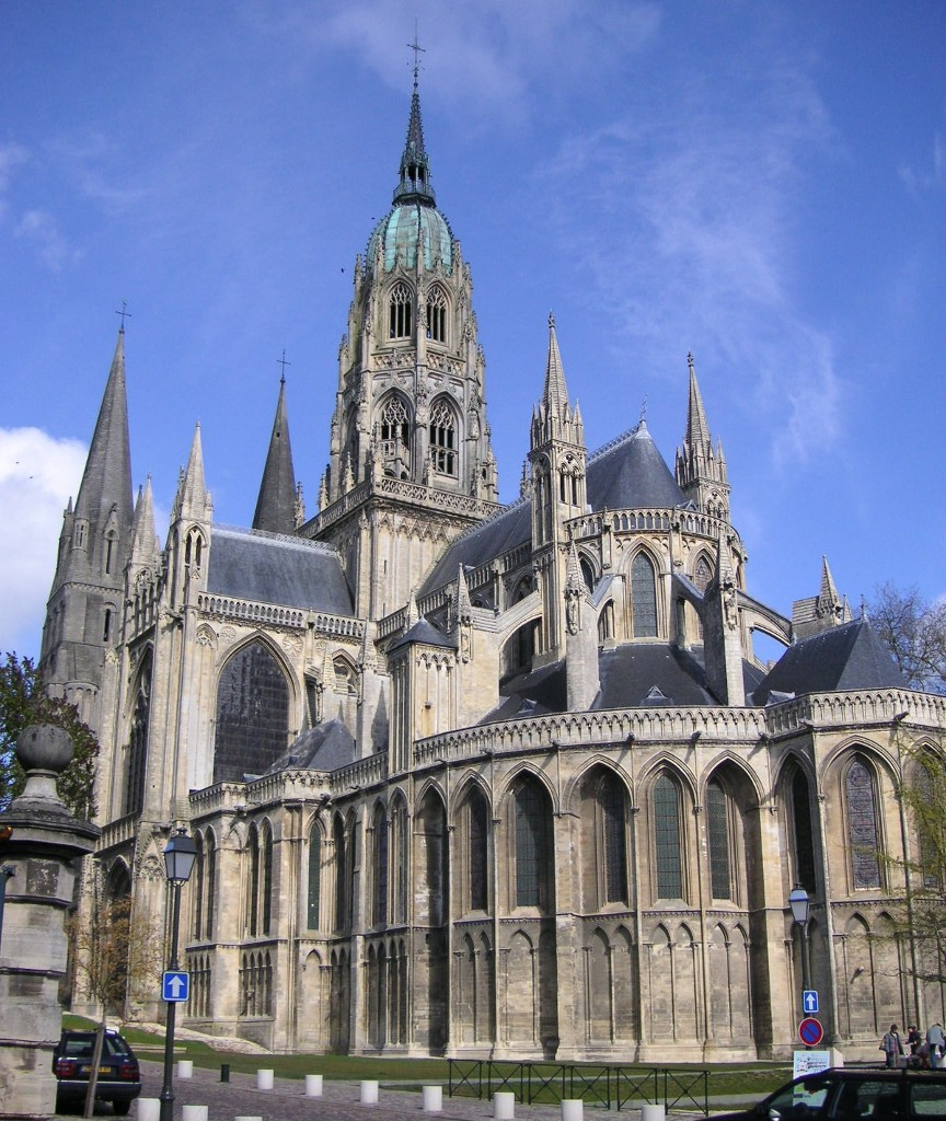 France, Bayeux Cathedral from the east